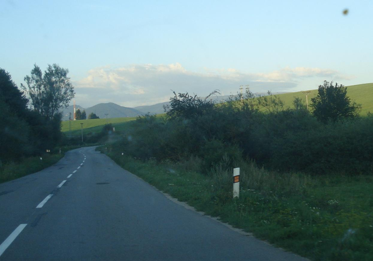 Route 517 RAJEC